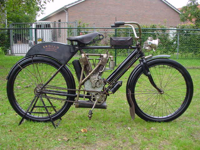 US Indian Twin motorcycle from 1908